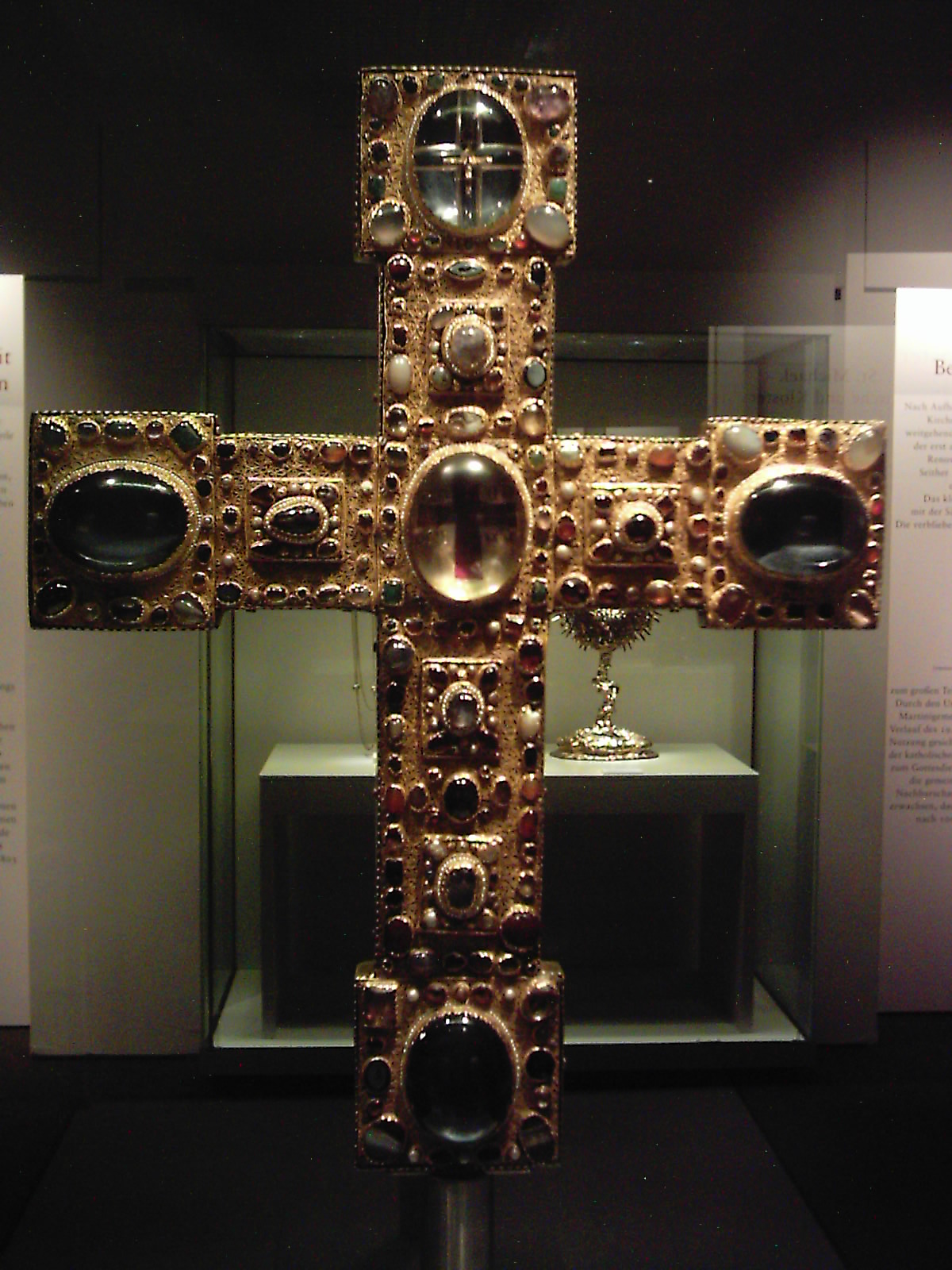 Treasury of the Catholic Cathedral St. Mary Assumption, Hildesheim